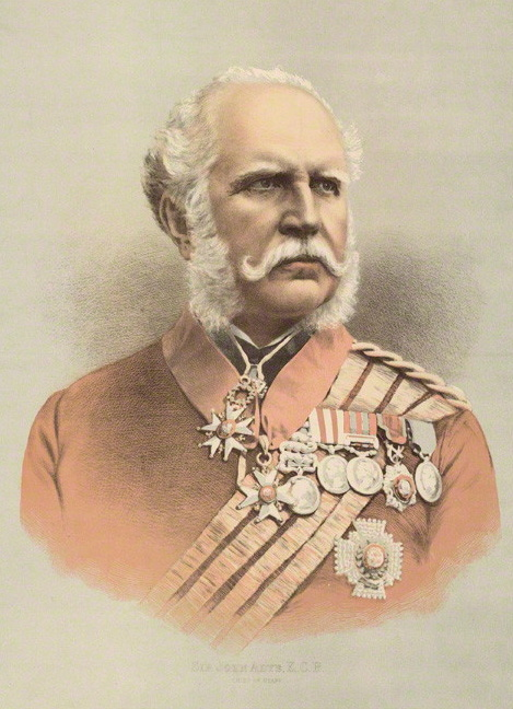 Portrait of Sir John Miller Adye (1819-1900)